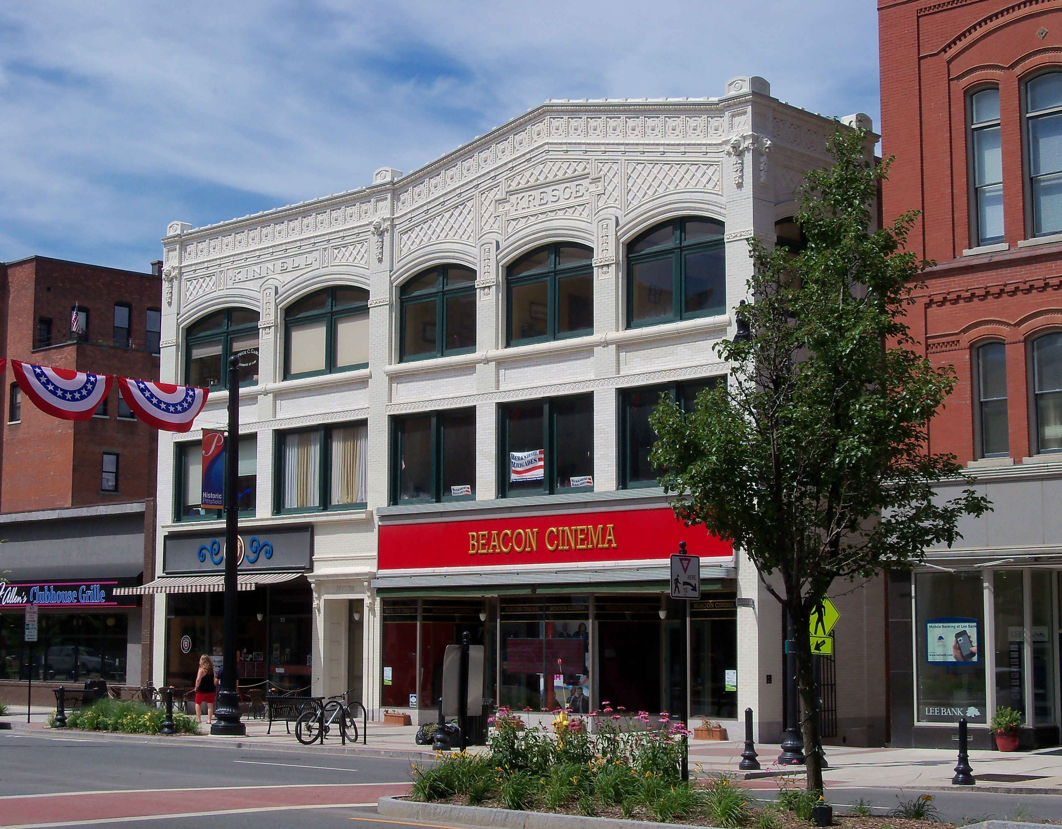 Building in downtown Pittsfield, Massachusetts, USA.